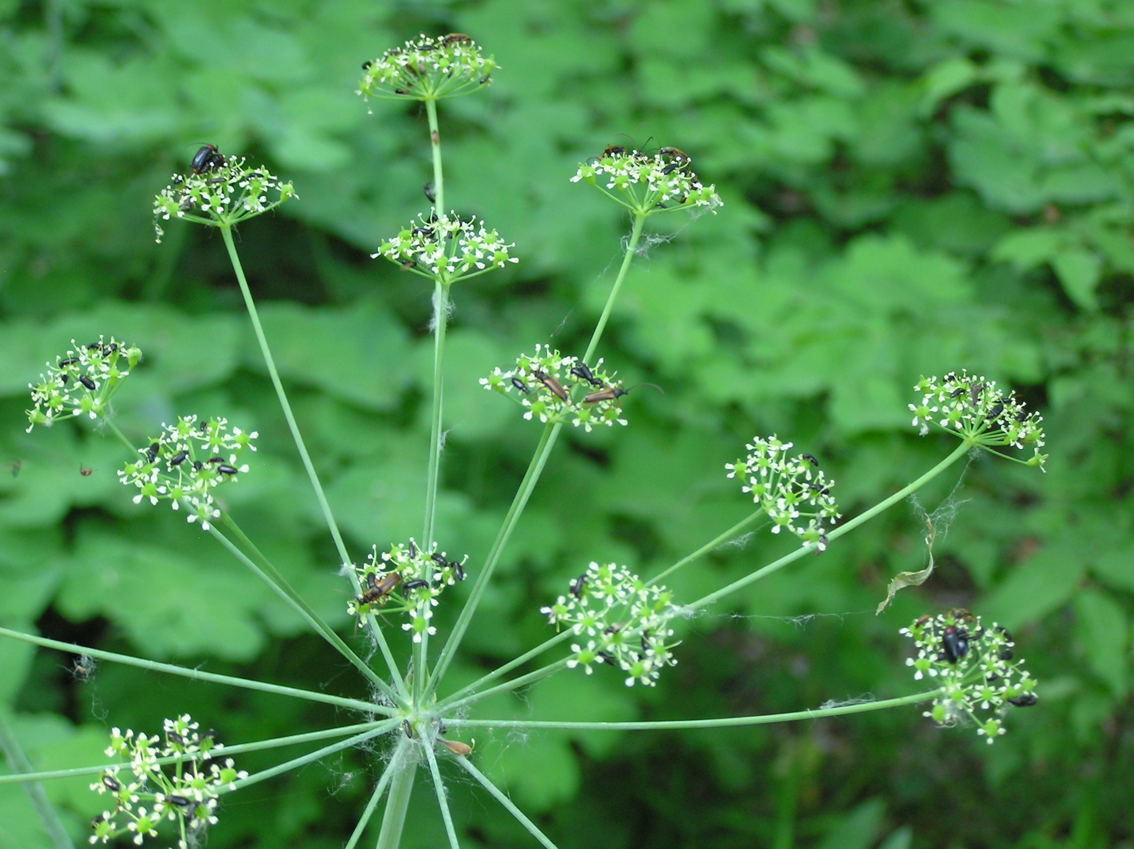 Laser trilobum (L.) Borkh. Habitat: upland deciduous forest. Vicinity of Saratov city, Russia.